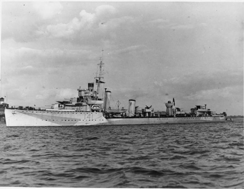 Photograph of British destroyer HMS Walpole, stationary in coastal waters.